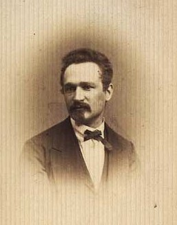 Theodor Philipsen (1840-1920), Danish painter